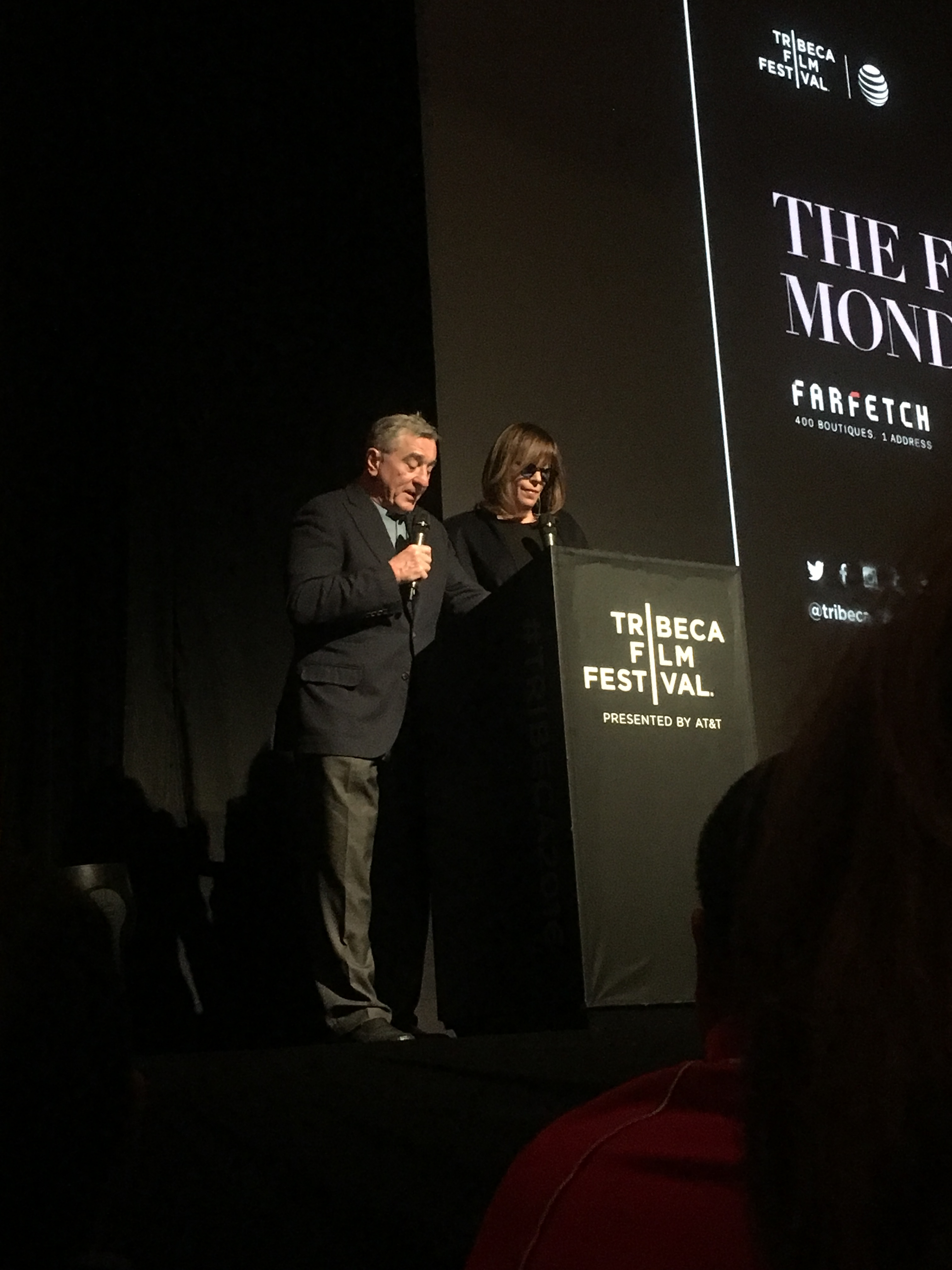 Robert De Niro and Jane Rosenthal at 2016 Tribeca Film Festival opening night